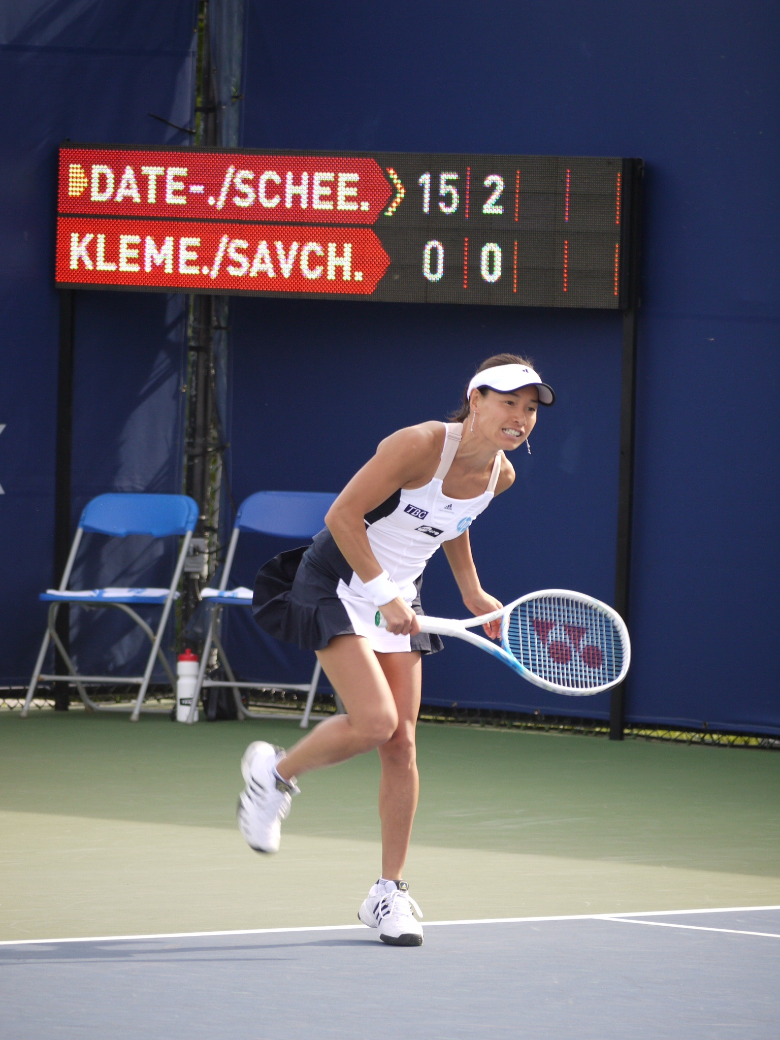 Kimiko Date-Krumm at 2013 Rogers Cup in Toronto